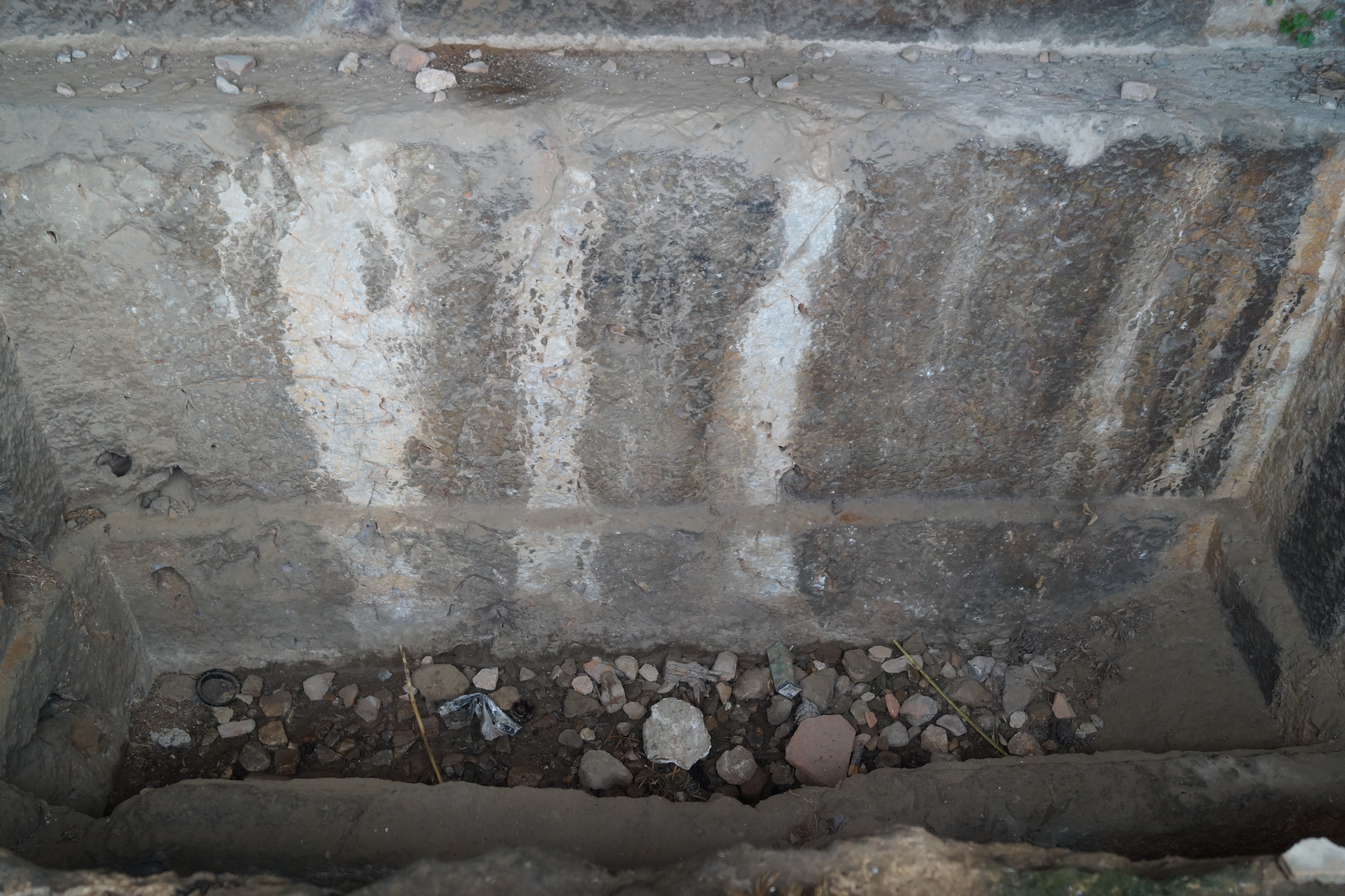 Athens, Greece: Tomb inside the Kimoneia.